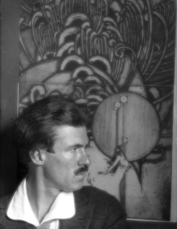 Roi Partridge, Etcher Portrait of Roi Partridge